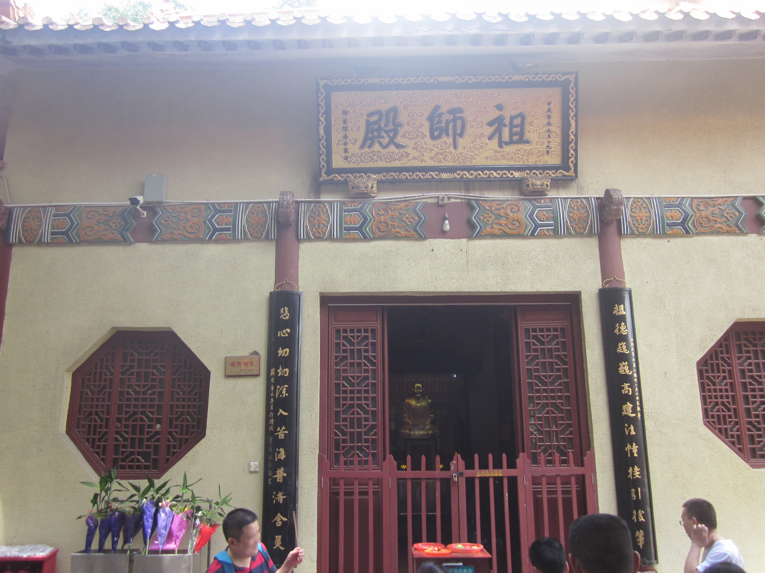 The Founder's Hall at Hongfa Temple, in Shenzhen, Guangdong, China. Hongfa Temple (弘法寺), is a Buddhist temple located in Bao'an District of Shenzhen city, south China's Guangdong province.